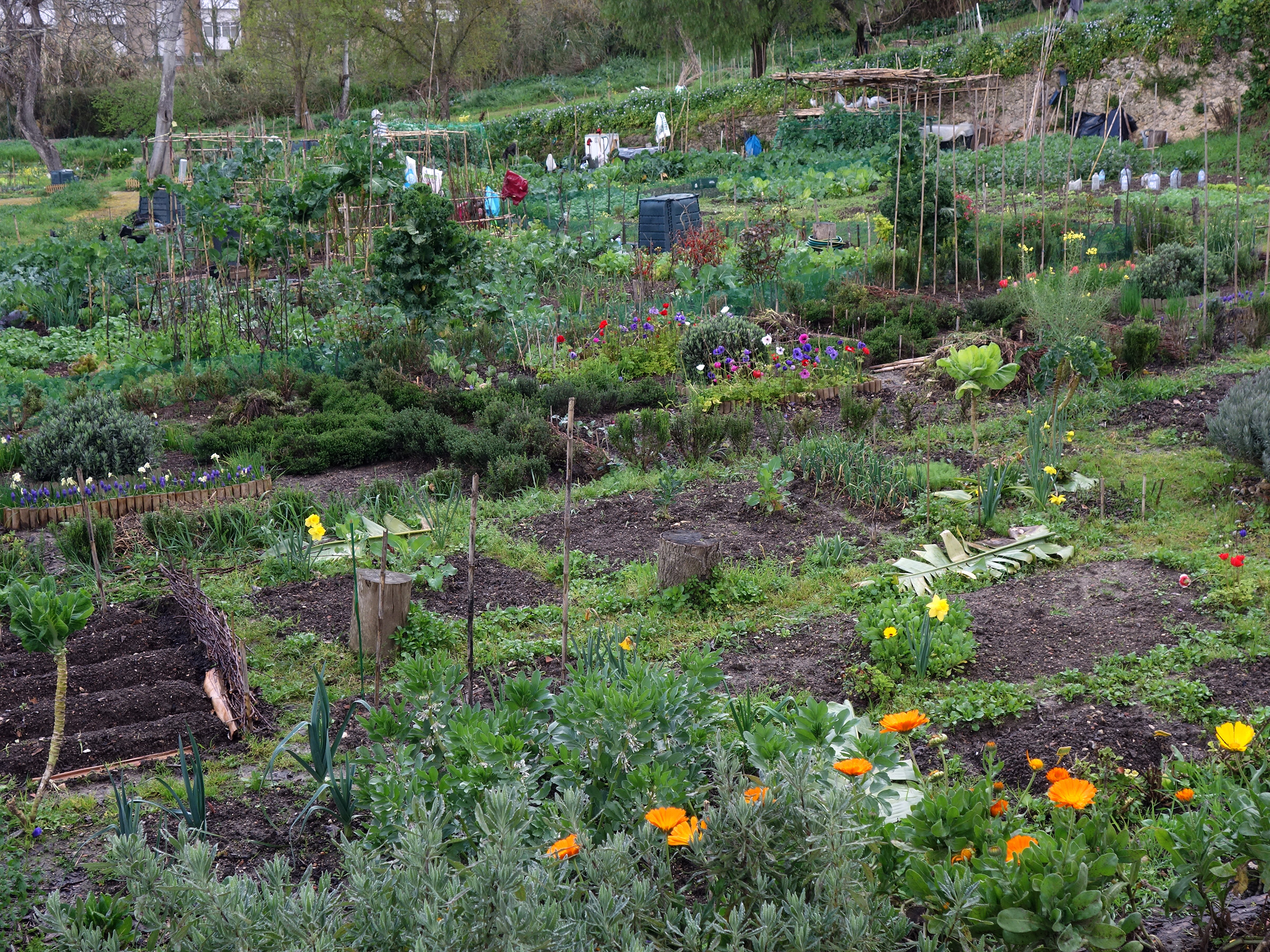 Parque Botánico do Monteiro-Mor, kitchen garden